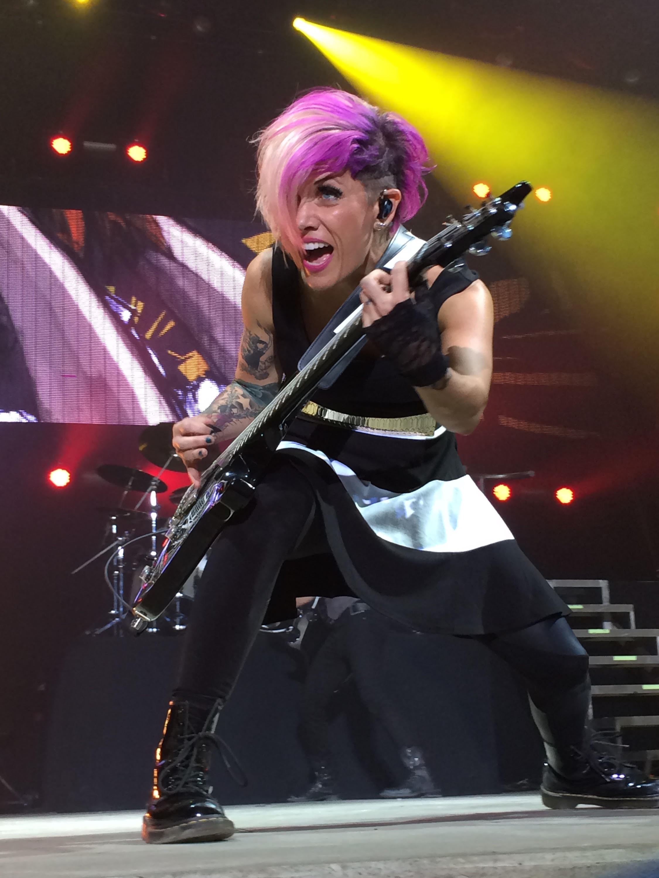 Korey Cooper at Wonderjam 2015 in Canada's Wonderland